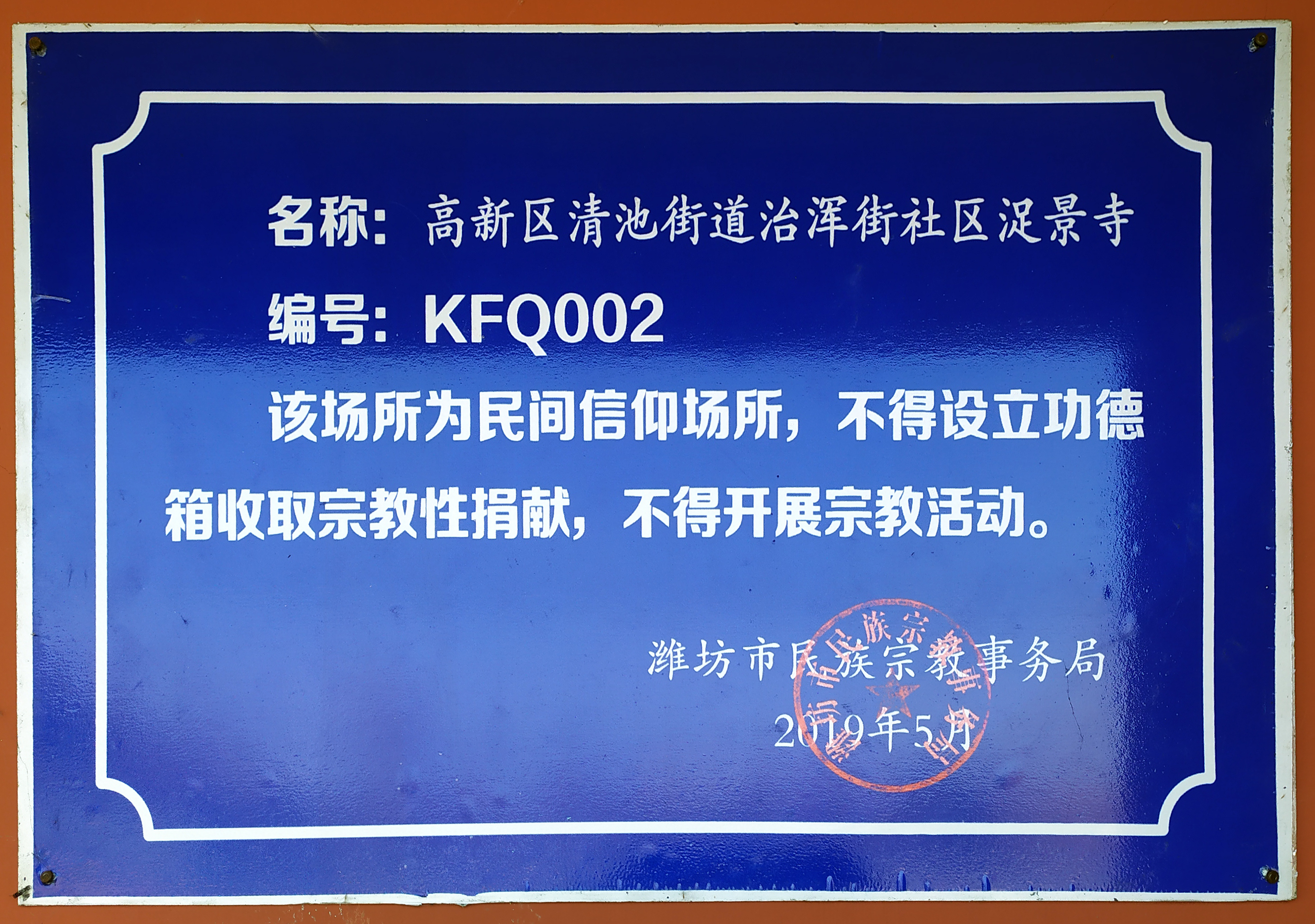 A sign with the contents of "This place is a place of folk belief. No religious donation or religious activities are allowed" . Taken in Zhuojig temple